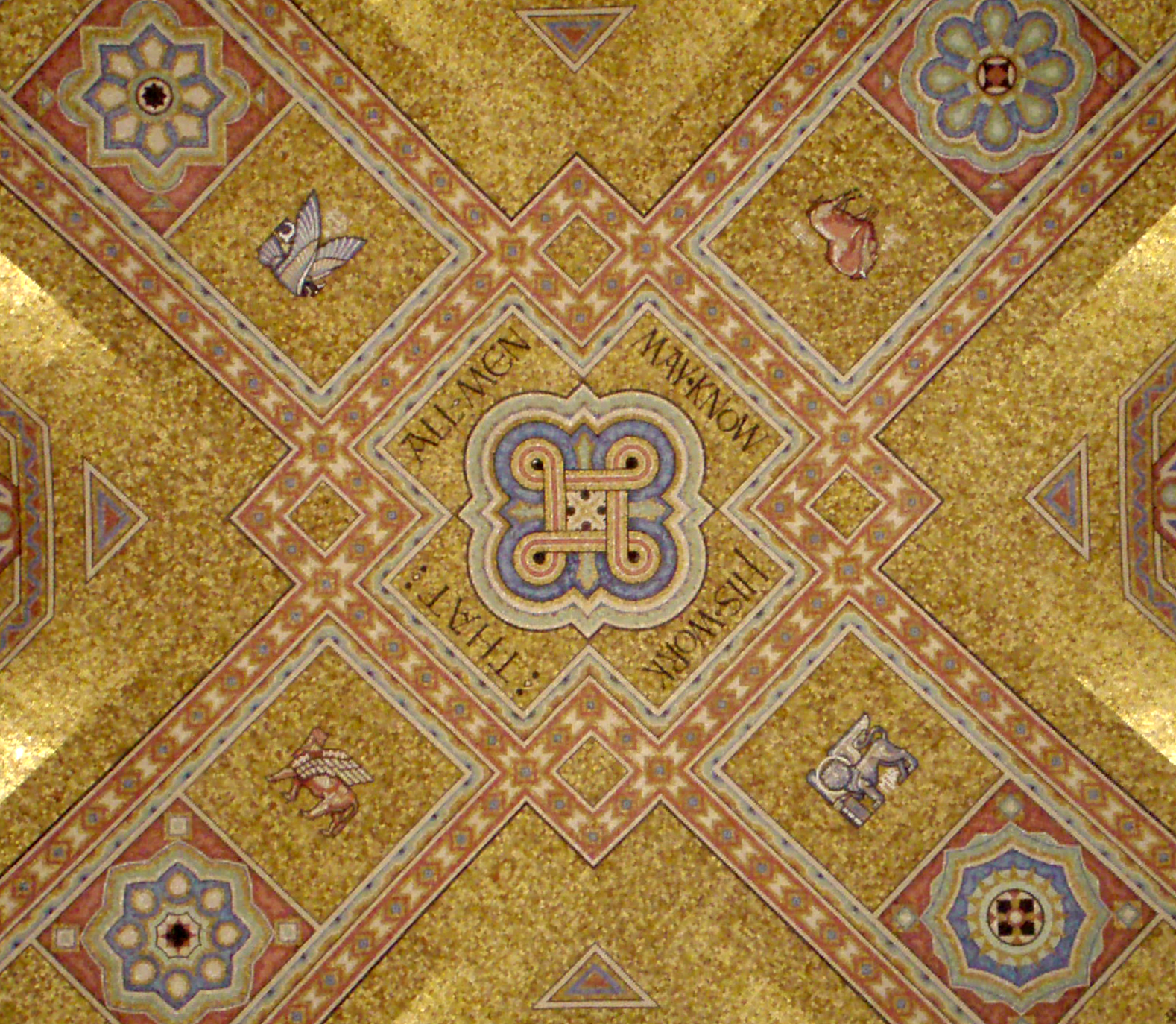 The central portion of the domed mosaic ceiling of the Rotunda at the Royal Ontario Museum.